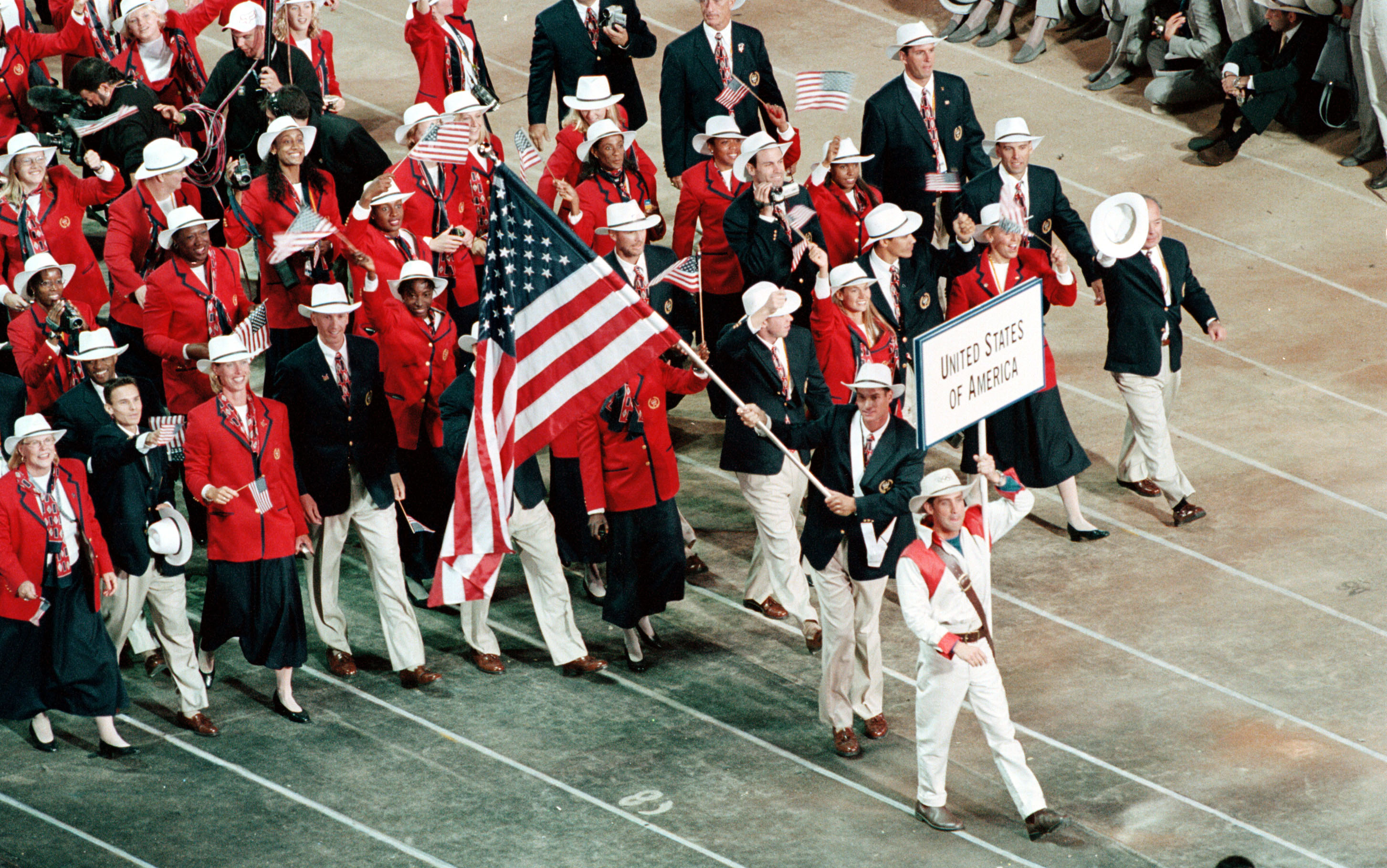 Athletes from the United States of America march into the Olympic Stadium during opening ceremonies for the 2000 Olympic Games in Sydney, Australia, on Sept. 15, 2000. Fifteen U.S. military athletes are competing in the 2000 Olympic games as members of the U.S. Olympic team. In addition to the 15 competing athletes there are eight alternates and five coaches representing each of the four services in various venues.